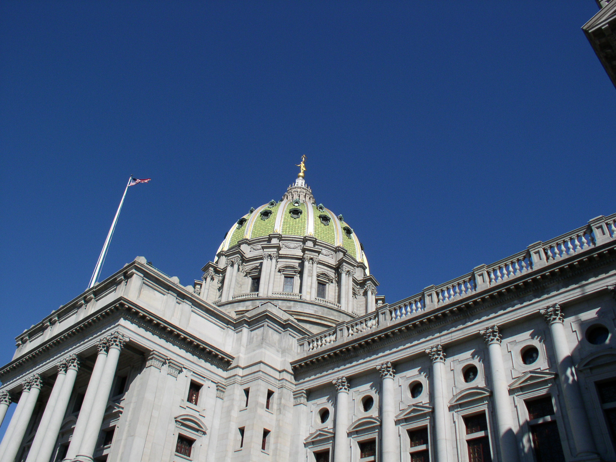 Pennsylvania State Capitol, Harrisburg, Pennsylvania, 30 October 2005.